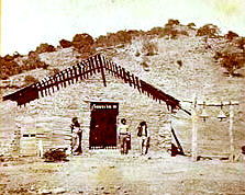 Santa Ysabel Asistencia, sub-mission San Diego Mission, circa 1875 in eastern San Diego County, California. img URL